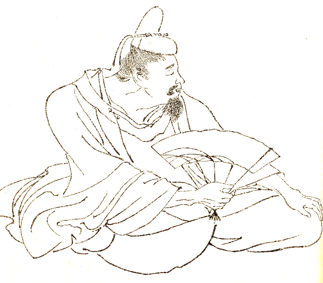 Fujiwara no Sukemasa (藤原佐理，944-998) was a son of Fujiwara no Atsutoshi, and a renowned Japanese calligrapher of the Heian period.This picture was drawn by Kikuchi Yosai（菊池容斎） who was a painter in Japan.